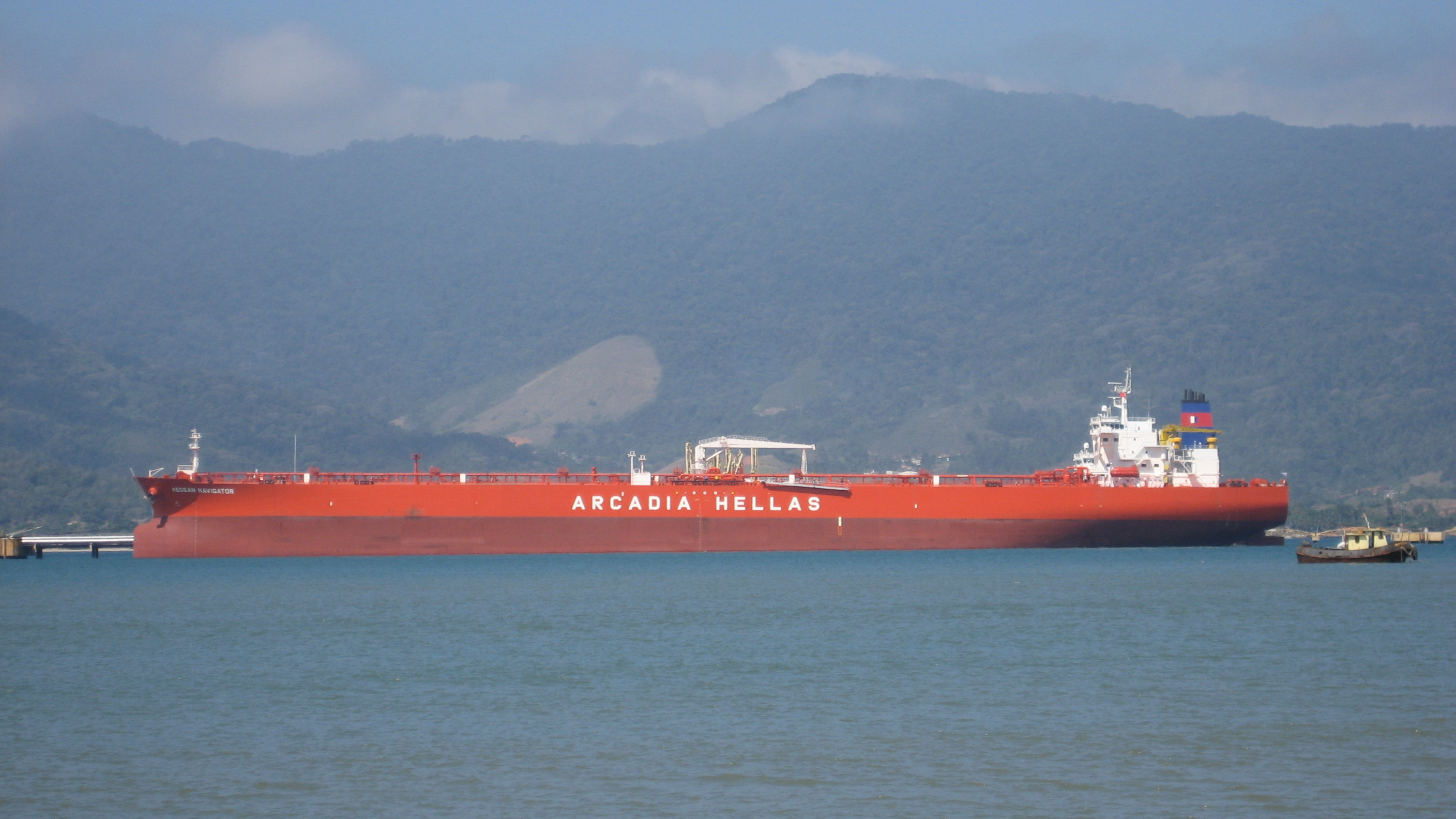 Arcadia Hellas's Tanker, Aegean Navigator, in Sao Sebastiao - Brazil IMO Number: 9326809 MMSI Number: 240634000 Callsign: SWBI Length: 274 m Beam: 47 m